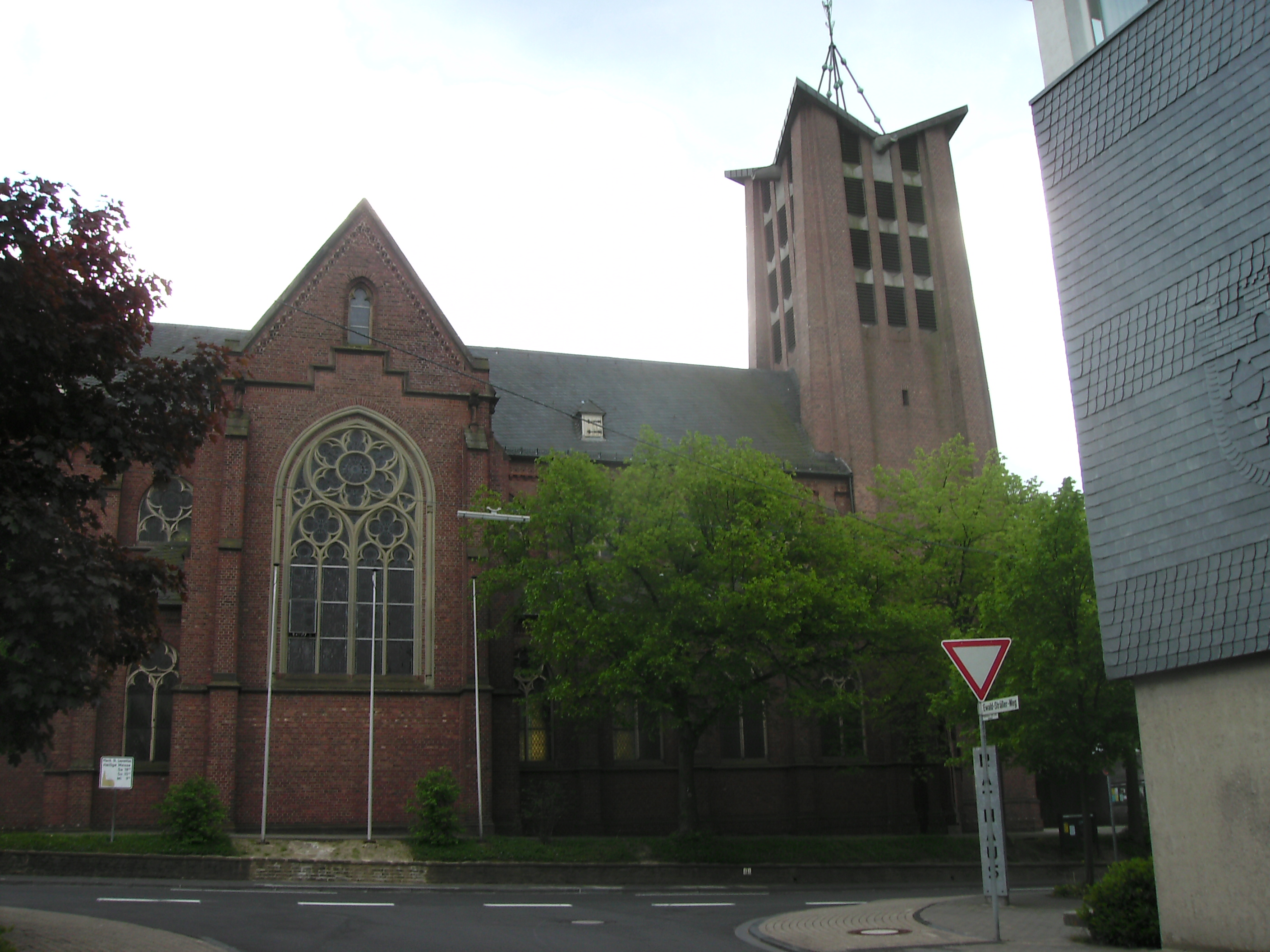 Catholic church in Burscheid, Germany.